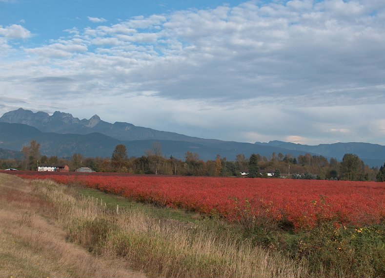 Blueberry farms in Pitt Meadows (British Columbia, Canada)